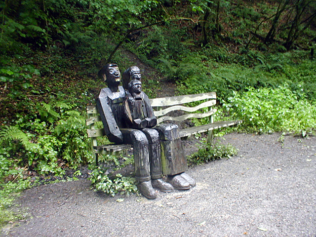 Sitting beside the Tarka Trail This is one of a series of statues along this part of the trail which forms a section of NCR between Ilfracombe & Plymouth.